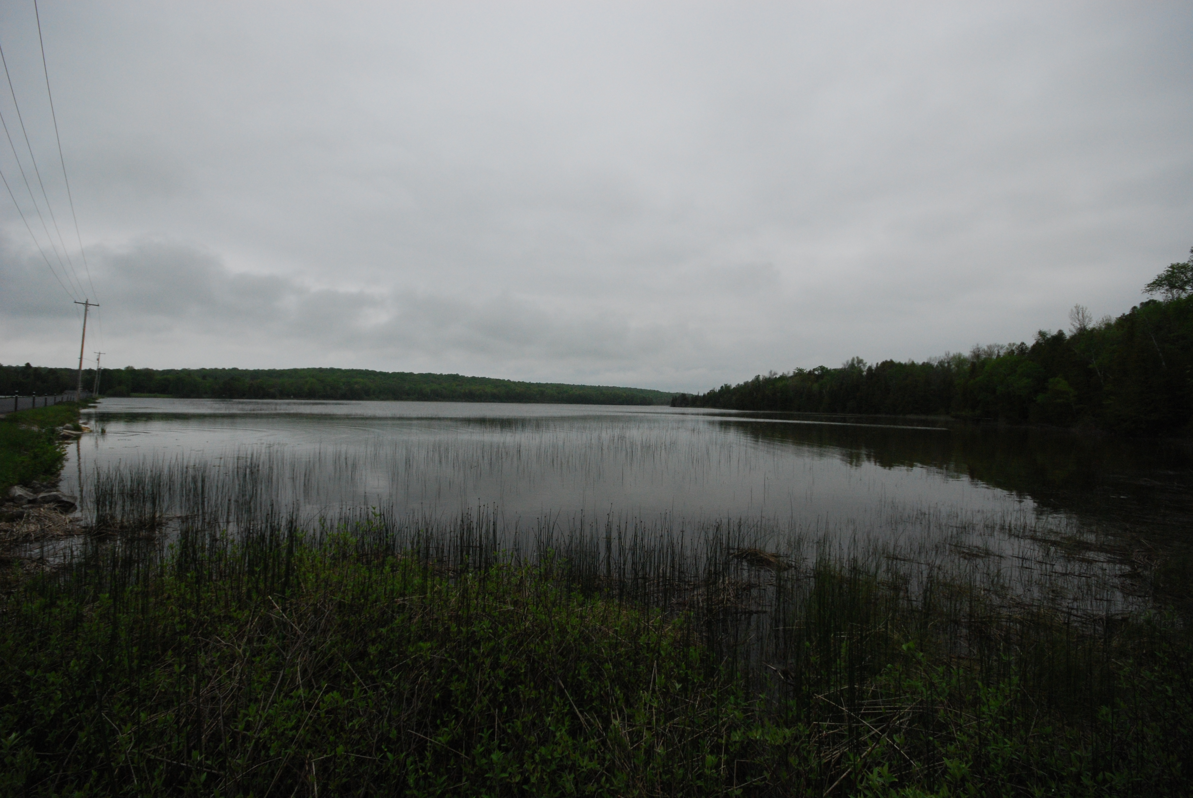 Kangaroo Lake, Door County, Wisconsin Wisconsin. It is within the towns of Baileys Harbor and Jacksonport.